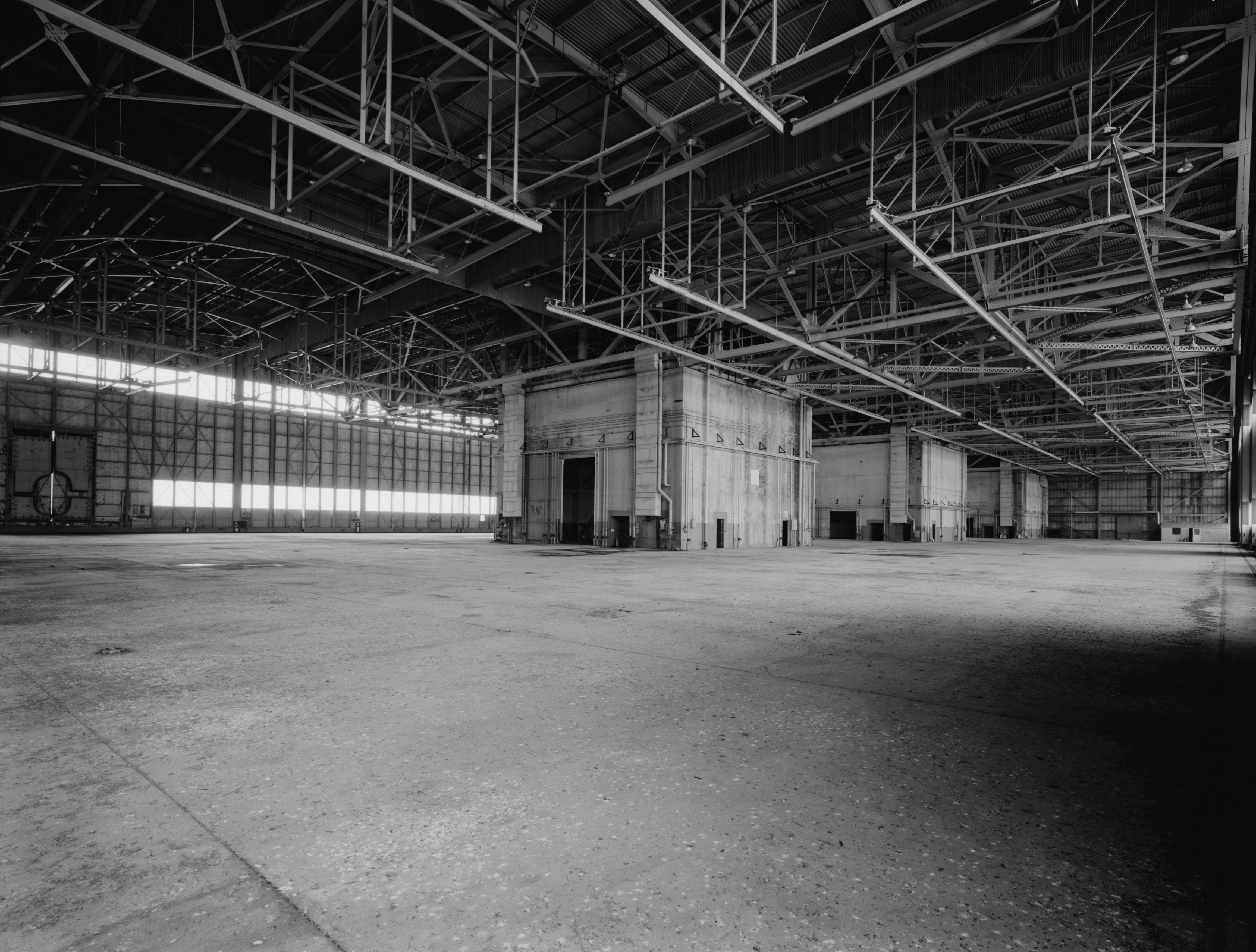 Loring Air Force Base, Maine The Library of Congress Historic American Buildings Survey/Historic American Engineering Record This photo is taken from the Library of Congress archives. TITLE: Loring Air Force Base, Double Cantilever Hangar, East of Arizona Road, west of southern portion of Taxiway J, Limestone vicinity, Aroostook County, ME CALL NUMBER: HAER ME,2-LIME.V,1C- DATE: Documentation compiled after 1968. CREATOR: Historic American Engineering Record, creator RELATED NAME(S): Kulijian Corporation Albert A. Lutz Company, Incorporated NOTE: Survey number HAER ME-64-C Building/structure dates: 1955 initial construction SUBJECTS: MAINE--Aroostook County--Limestone vicinity military art & science hangars defense industry OTHER TITLE: Building No. 8280 COLLECTION: Historic American Engineering Record (Library of Congress) REPOSITORY: Library of Congress, Prints and Photograph Division, Washington, D.C. 20540 USA DIGID: CARD #: ME0310 Interior view of Double Cantilever Hangar (Building No. 8280) looking northeast. Showing three story concrete shop structures dividing hangar into three work bays. HAER ME,2-LIME.V,1C-7